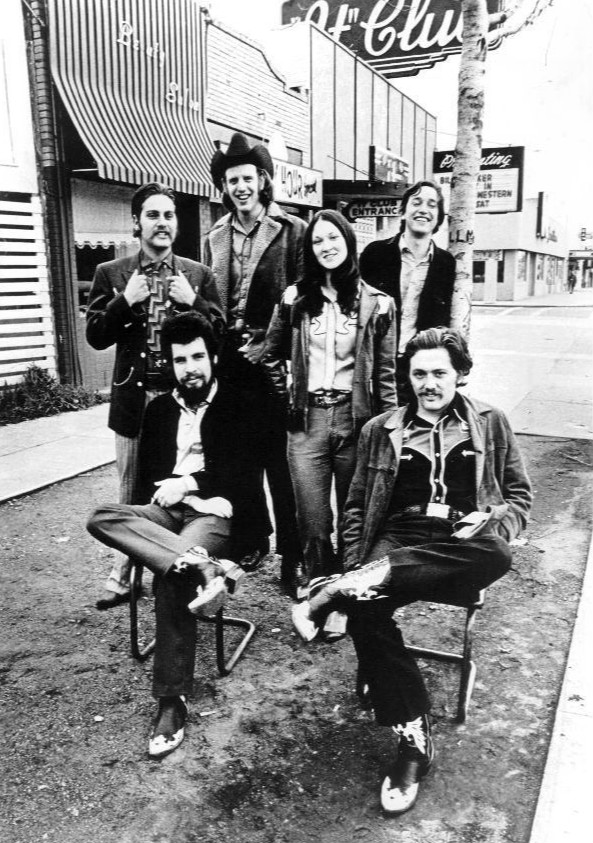 Photo of the music group Asleep at the Wheel.